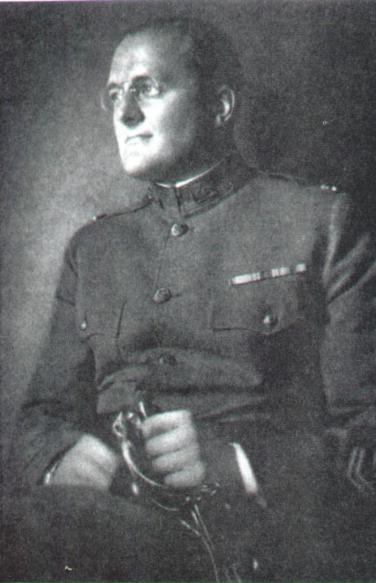 Photograph of Wickliffe Draper taken in American Army uniform after resignation from British Army in World War I (according to "The science of human diversity: a history of the Pioneer Fund" by Richard Lynn)